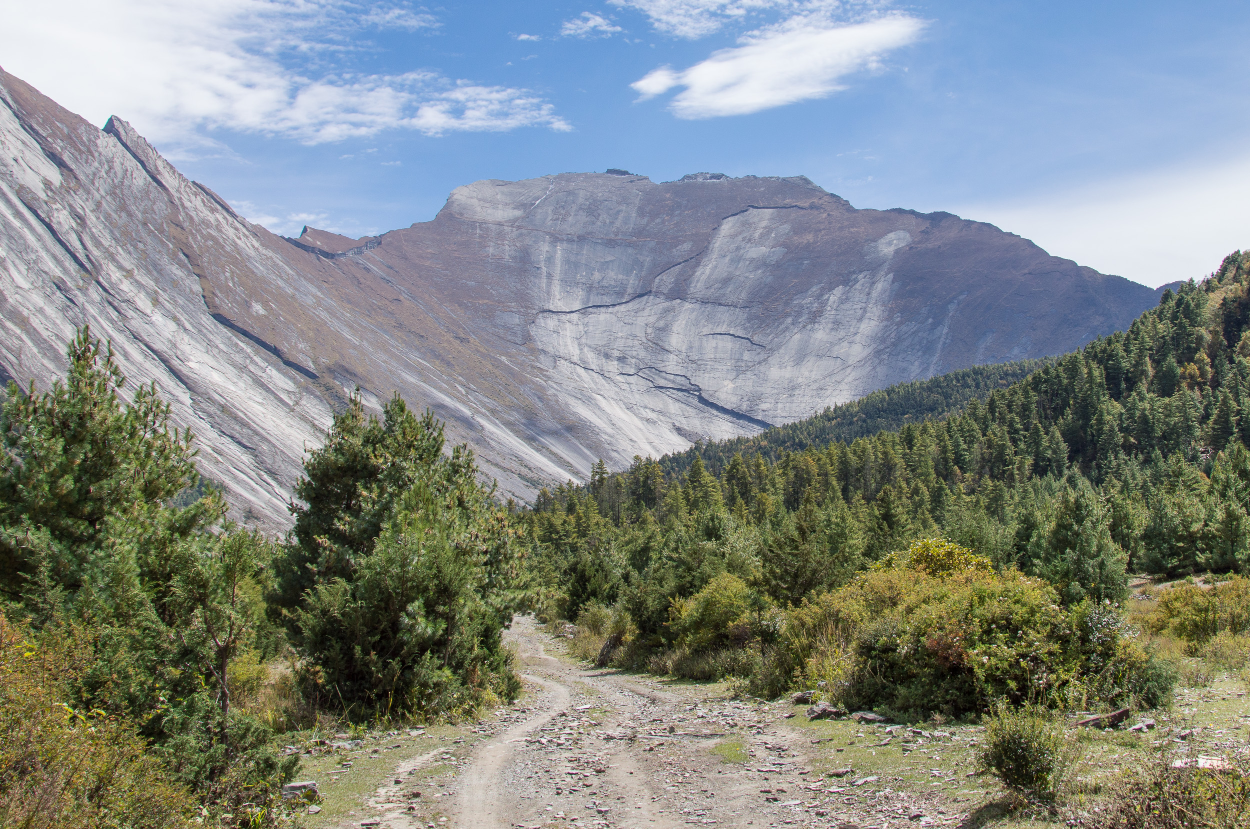 Polished mountains / Annapurna Circuit, Nepal